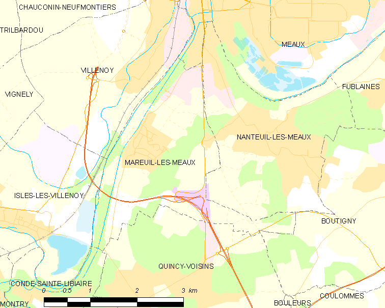 Map of French municipality Mareuil-lès-Meaux